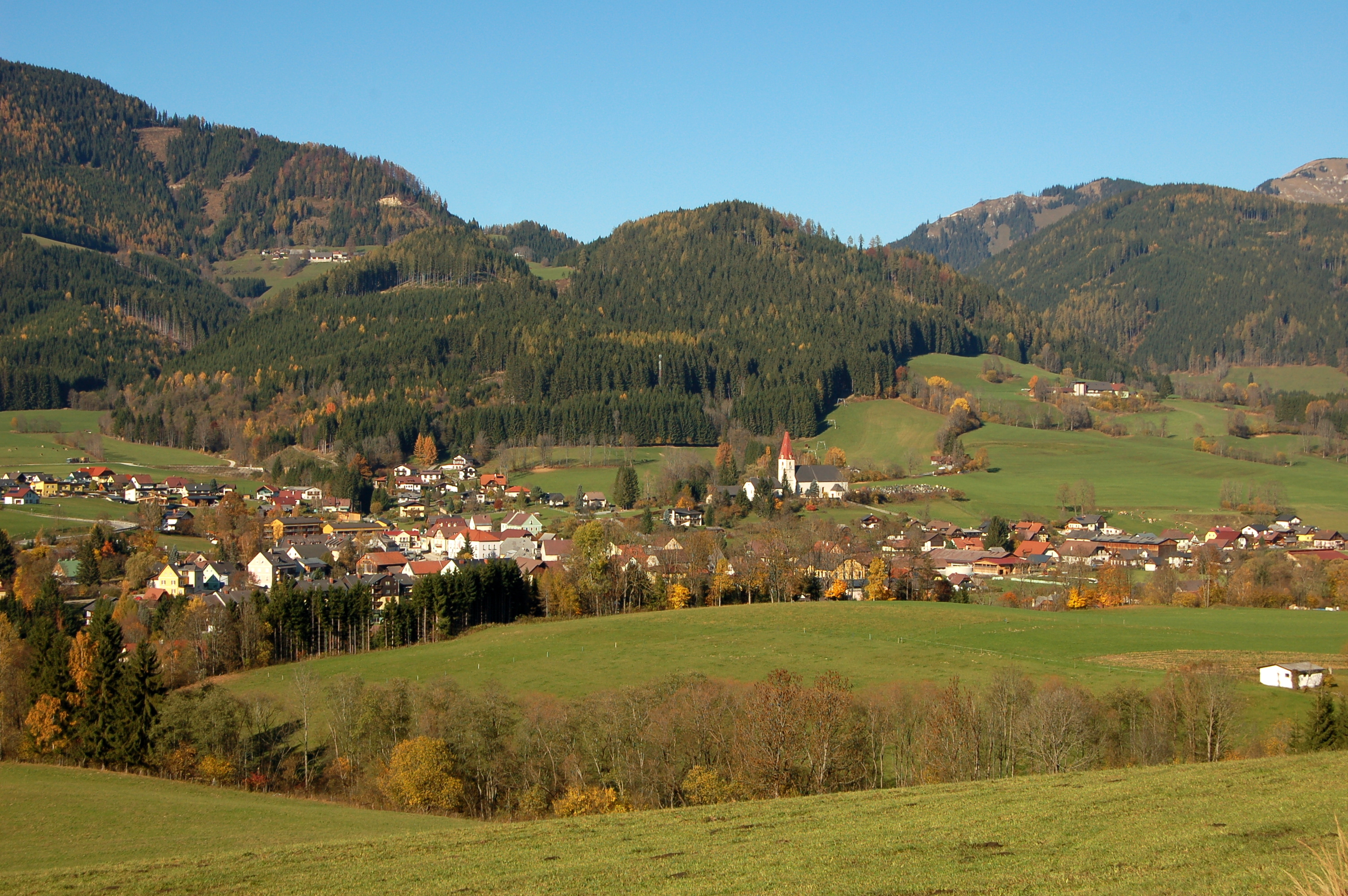 Turnau in Styria; view towards north.